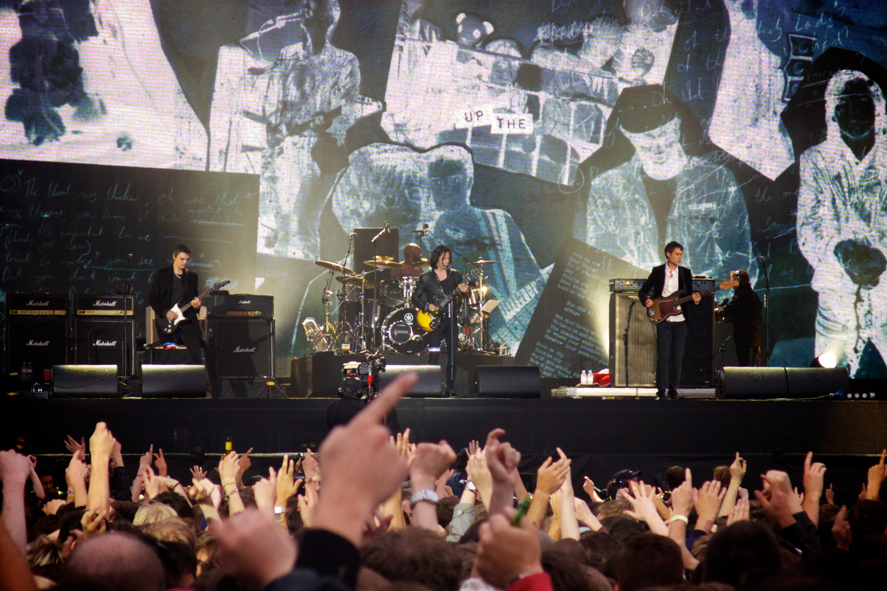 The Libertines performing in 2014